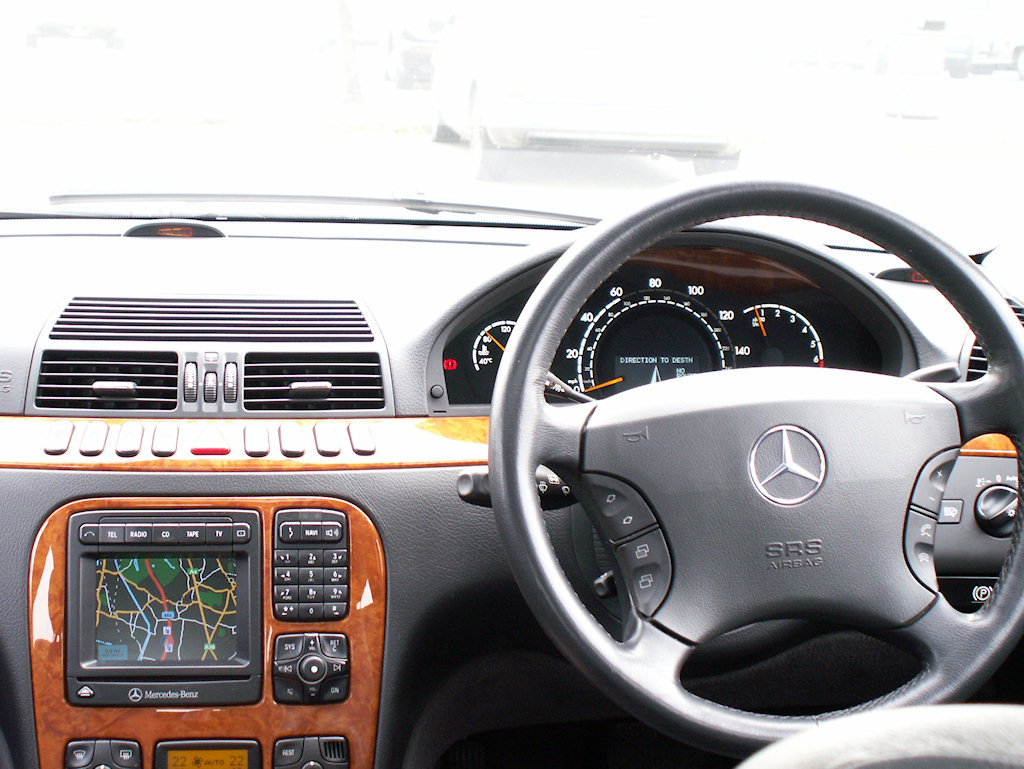 Interior view of a Mercedes-Benz 2001 W220 S500, showing the centre console with the COMAND screen and controller, the multi-function steering wheel and the instrument cluster